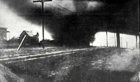 Picture of the 1913 Omaha Tornado which devastated much of the downtown core of the city as well as suburban Council Bluffs, Iowa. Courtesy of Historic .